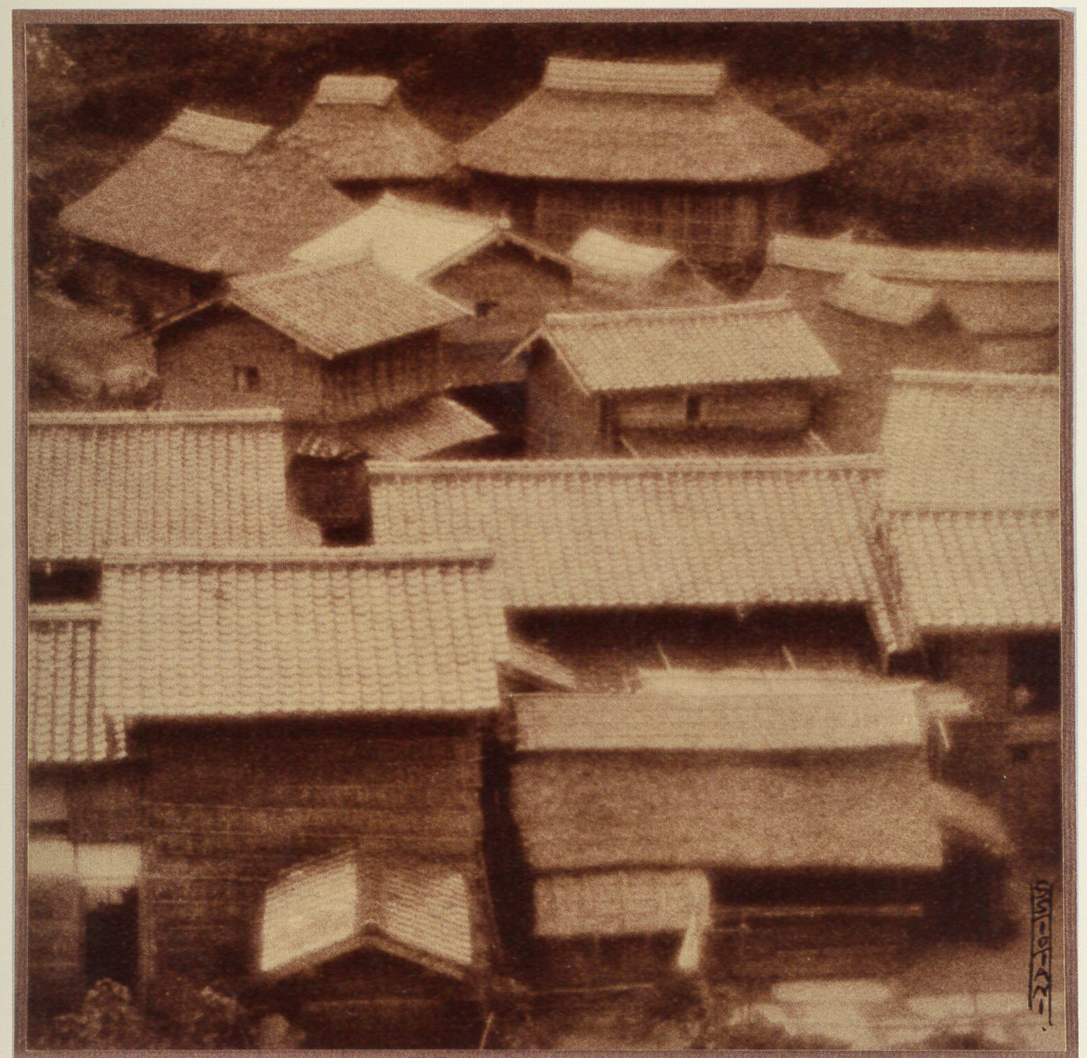 Photograph taken in August 1925 by Teikō Shiotani (鹽谷定好, 1899–1988) of Okidomari (沖泊) in what is now Yunotsu-chō (温泉津町), Shimane Prefecture, Japan. From a print made in 1925 or 1926, or later but in a similar style, and as published in 1926. Original title: 村の鳥瞰 (Mura no chōkan); a title that has since been used consistently for this (and other photographs that Shiotani took during the same excursion). In English, it has been titled "Bird's-eye view of a village" (and trivial variations on this) and "Aerial view of village". Published in Geijutsu Shashin Kenkyū (ARS 寫眞年鑑 1926, a long-defunct Japanese photography annual).